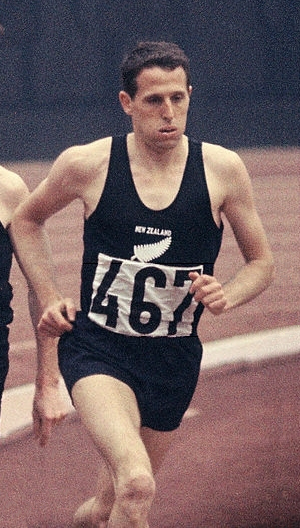 John Davies running the 1,500 m final at the National Stadium during the Tokyo Olympic on October 21, 1964 in Tokyo, Japan.